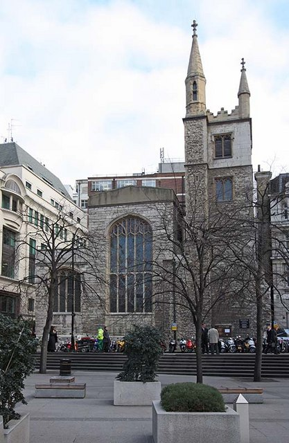 St Andrew Undershaft, St Mary Axe, London EC3